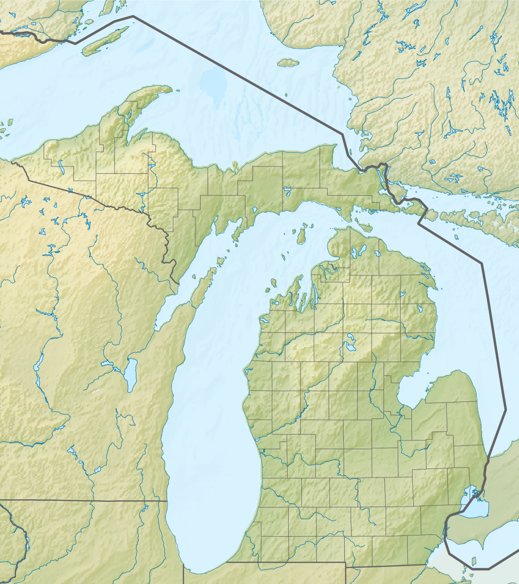 Relief map of Michigan, USA Equirectangular projection, N/S stretching 140.0 %. Geographic limits of the map: N: 48.5° N S: 41.5° N W: 90.6° W E: 81.9° W